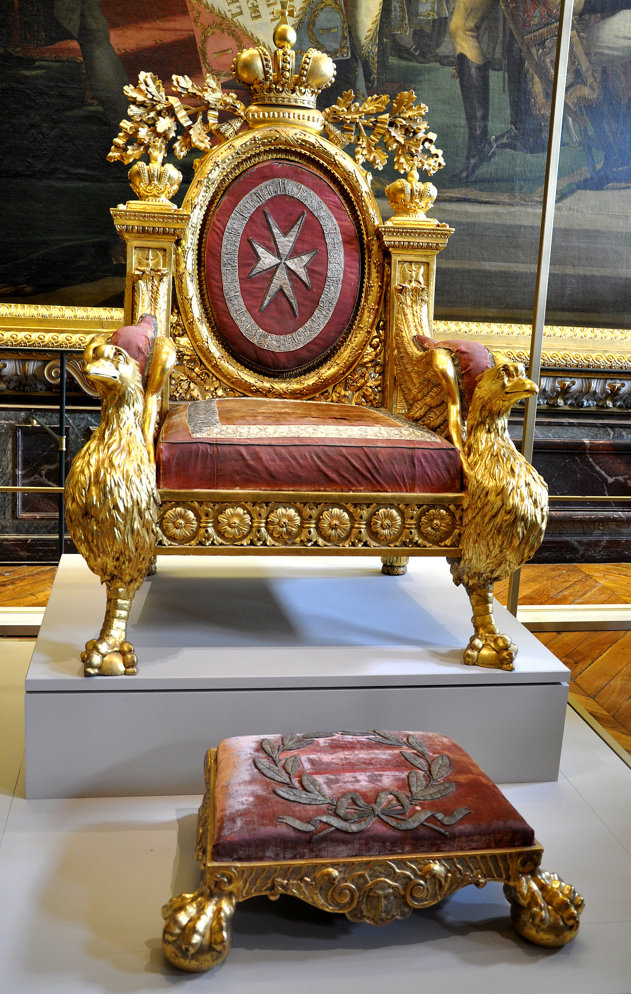 Paul I, the emperor of Russia, who became the grand master of the Order of Malta in 1799, had this carved, gold-covered wooden throne made for the Knights' Chapel near Vorontsov Palace in Saint Petersburg to magnify his new dignity. Telesforo Bonaveri was commissioned to the work based on a design by the neo-classical architect Giacomo Quarenghi (1744-1817), who was in charge of building the chapel. A pair of hawks with outstretched wings serve as elbow-rest, their talons resting on flattened pads.